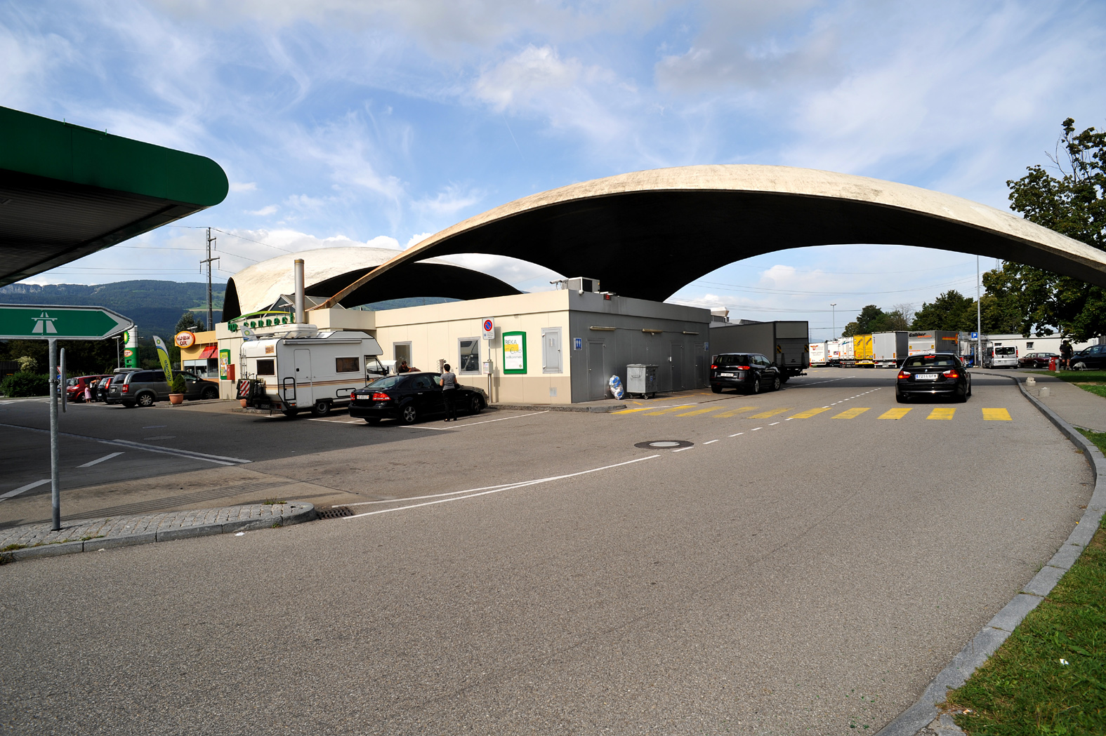 Highway service area Deitingen south, triangle concrete cupola roofs of the Swiss civil engineer Heinz Isler, built 1968; Solothurn, Switzerland.